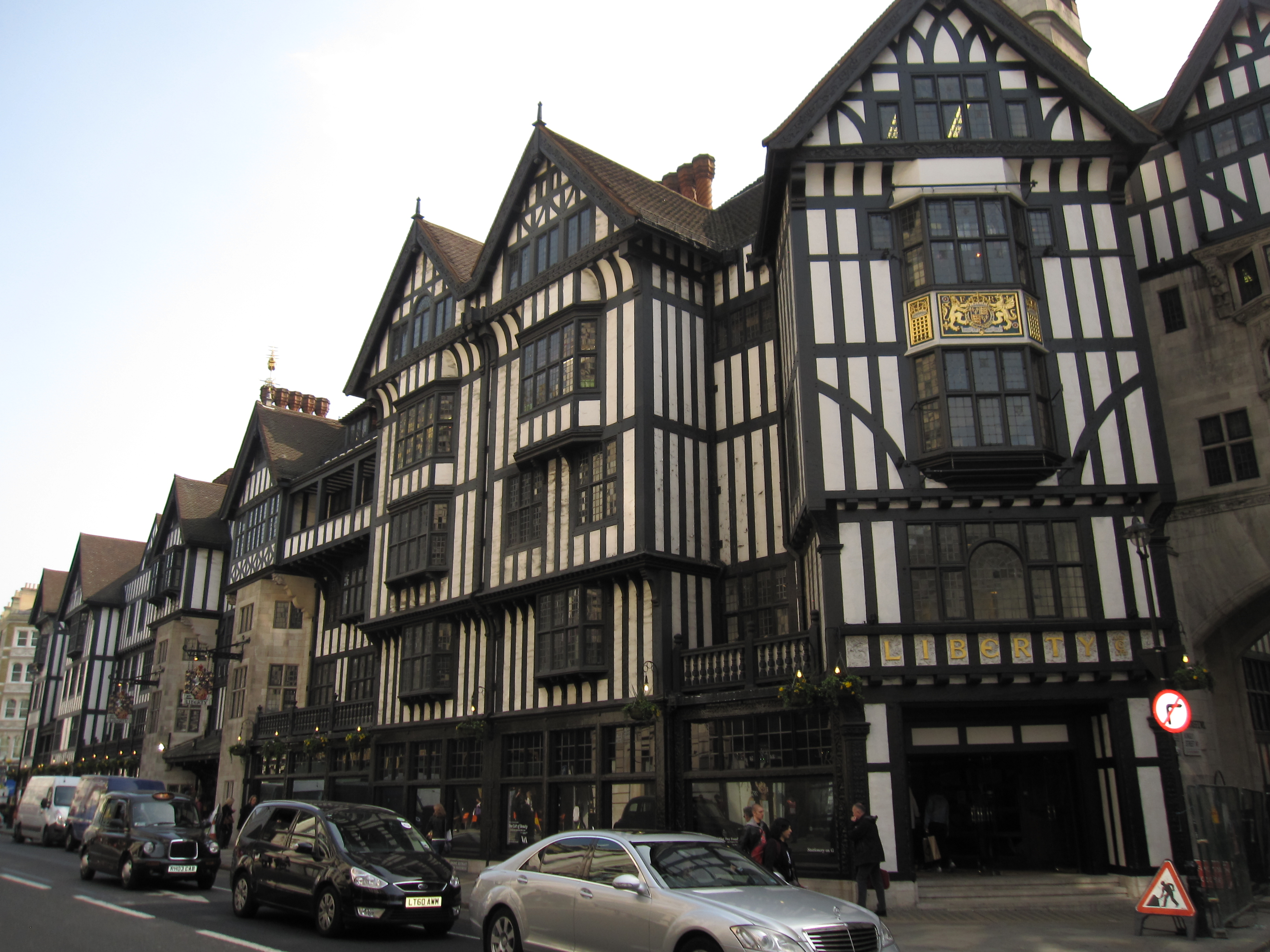 Liberty department store in London.